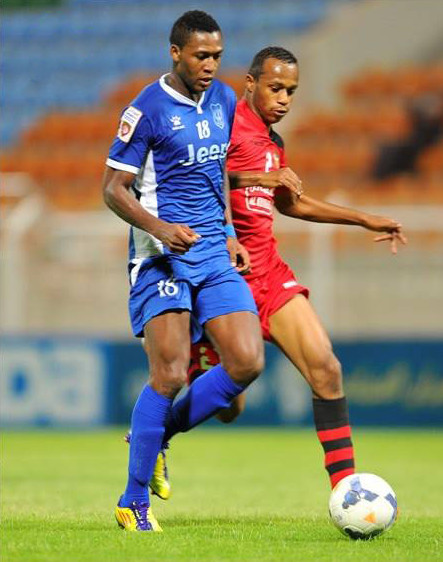 Mechac Koffi in a match against Musannah Club. 4 April 2015 Al Seeb Stadium Photographer email id